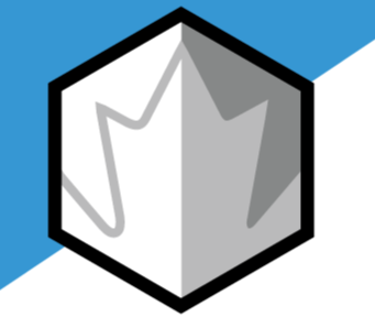 Logo of the Junior Science Olympiad of Canada © 2019 JSOC